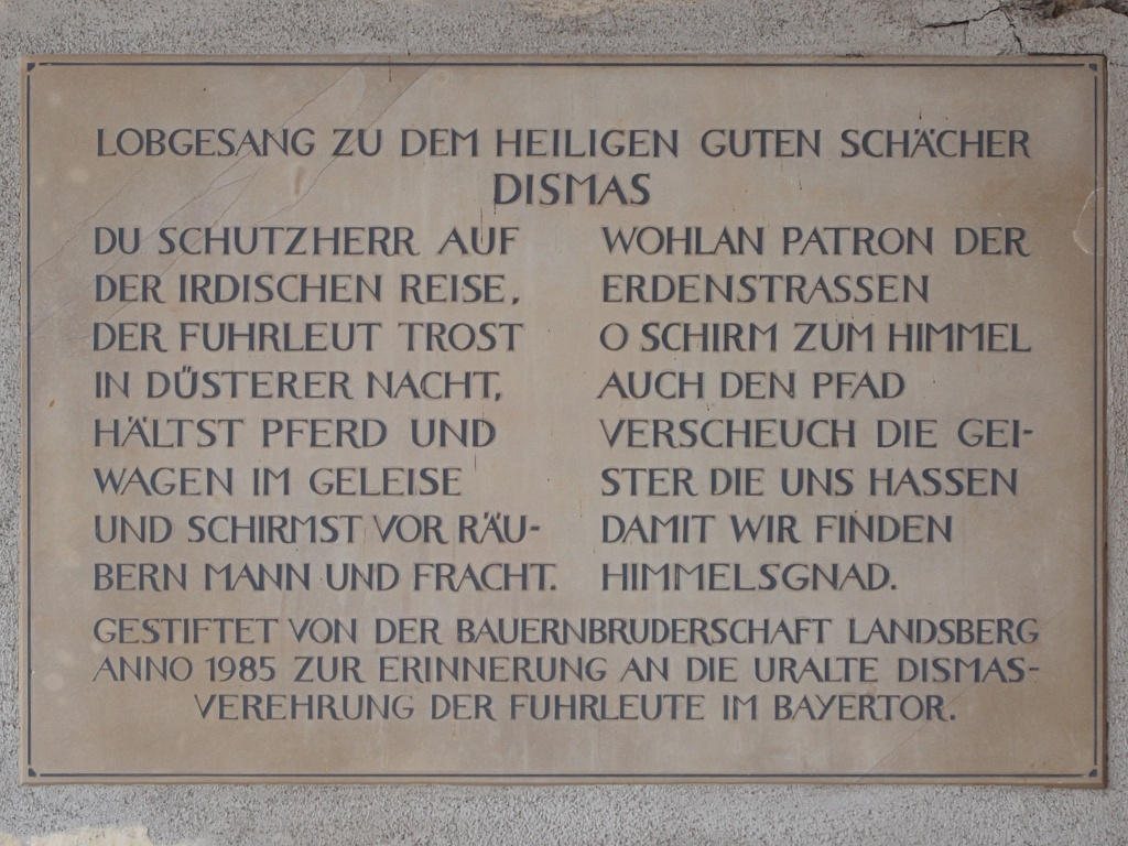 Evidence of former Dismas veneration from wagoners of Landsberg am Lech in Germany.